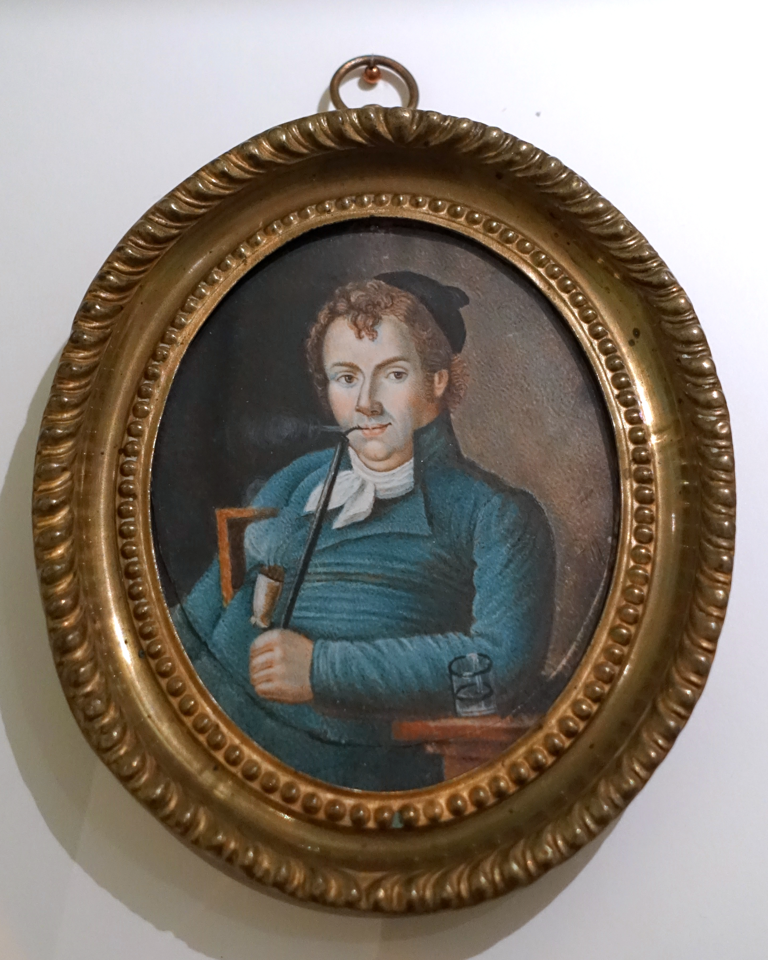 Exhibit in the Braunschweigisches Landesmuseum, Braunschweig, Germany. This work is in the public domain because the artist(s) died more than 100 years ago.